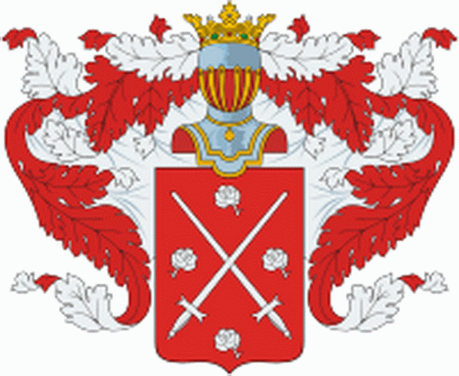 Coat of Arms of Sumarokovy family